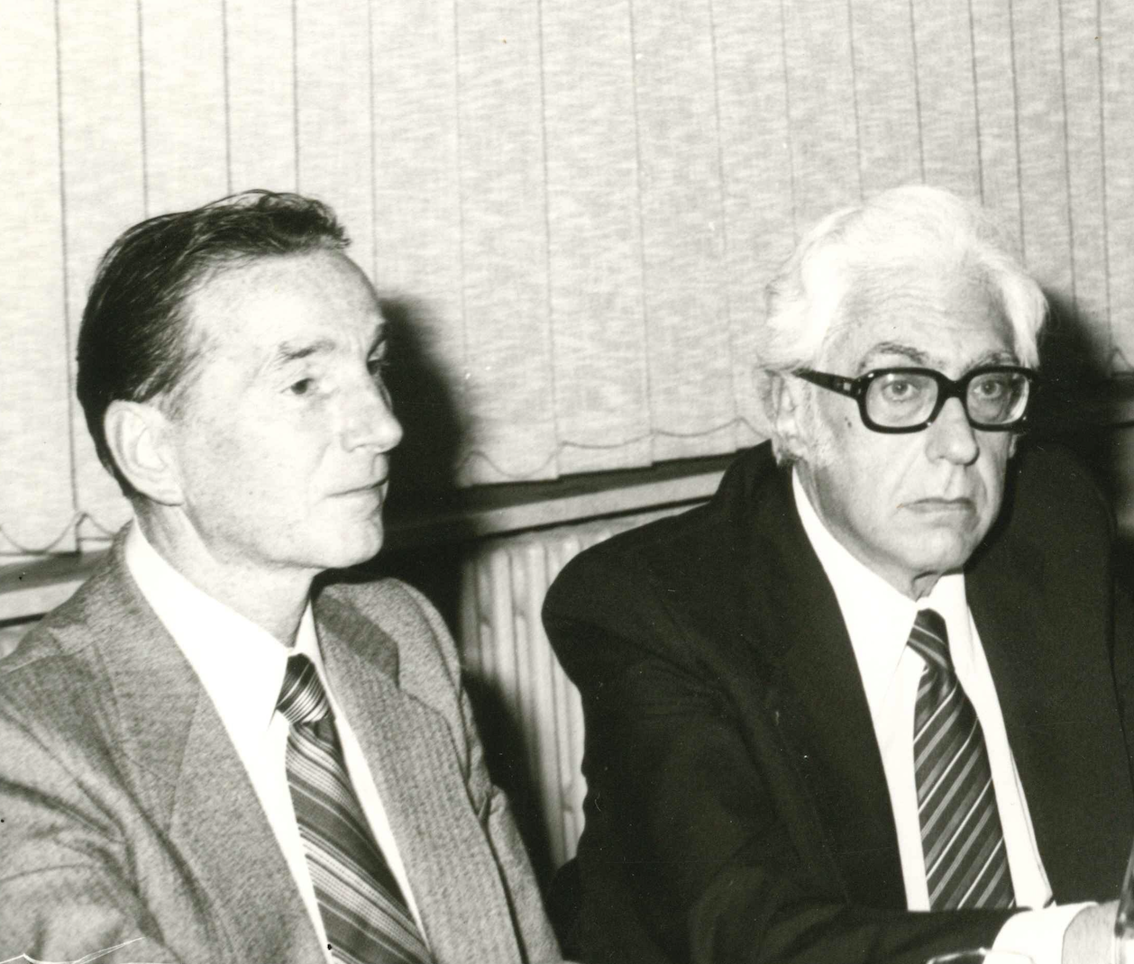 Italian writers Giuliano Manacorda (left) and Luigi Silori during the ceremony of Premio di poesia Bari Palese (Italy), October 14th 1979